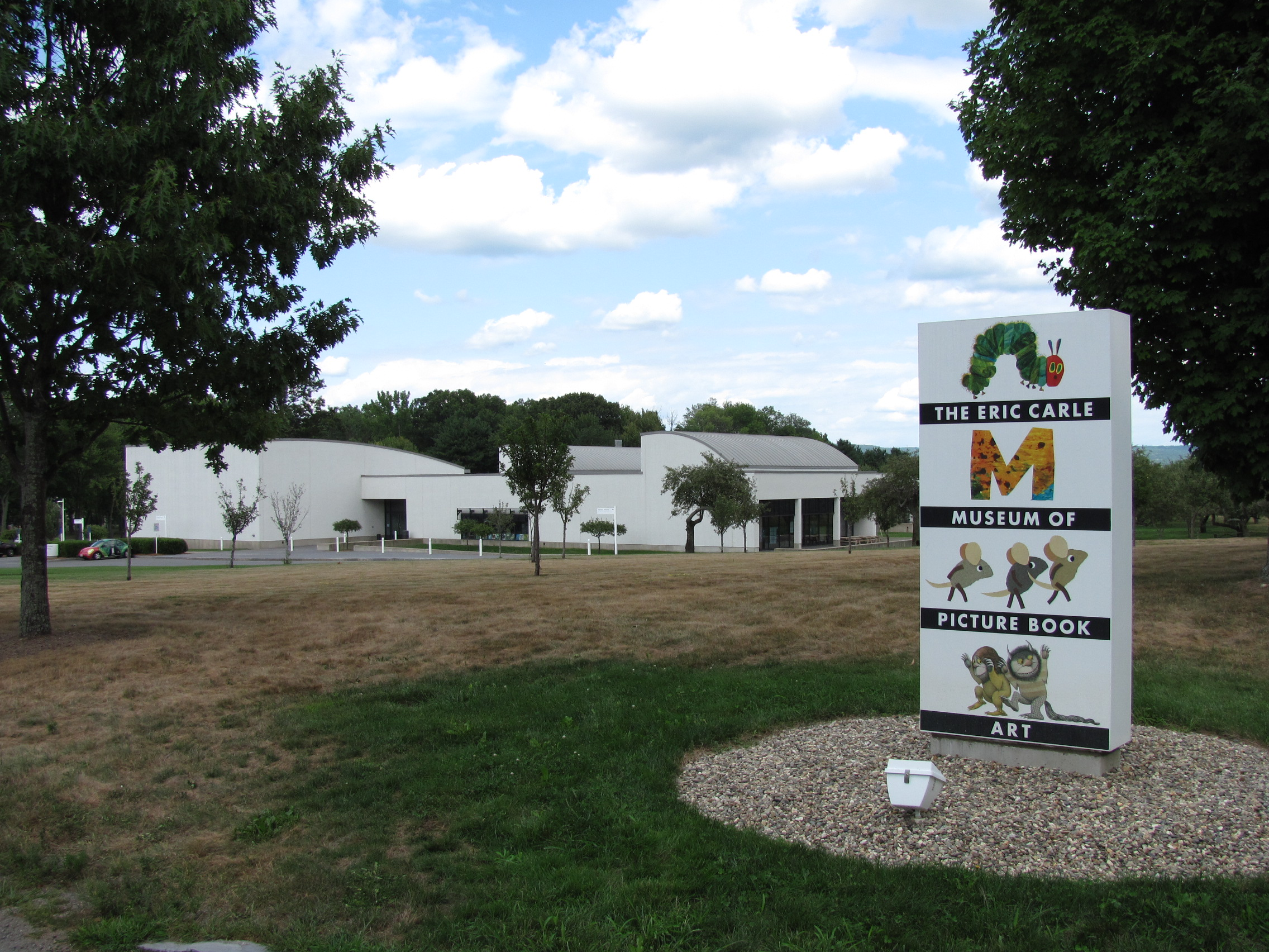 Eric Carle Museum of Picture Book Art, Amherst Massachusetts